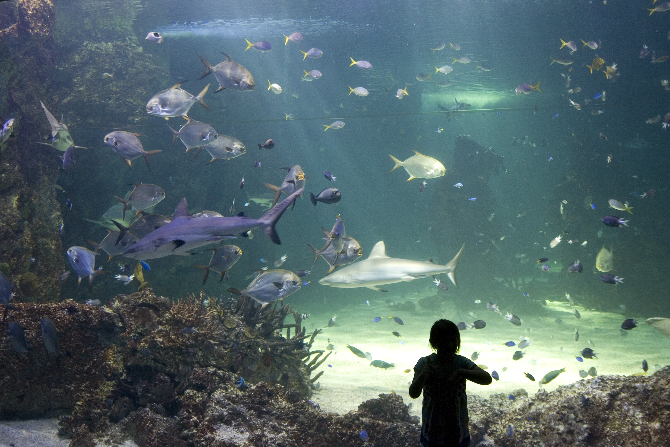 Sydney Aquarium